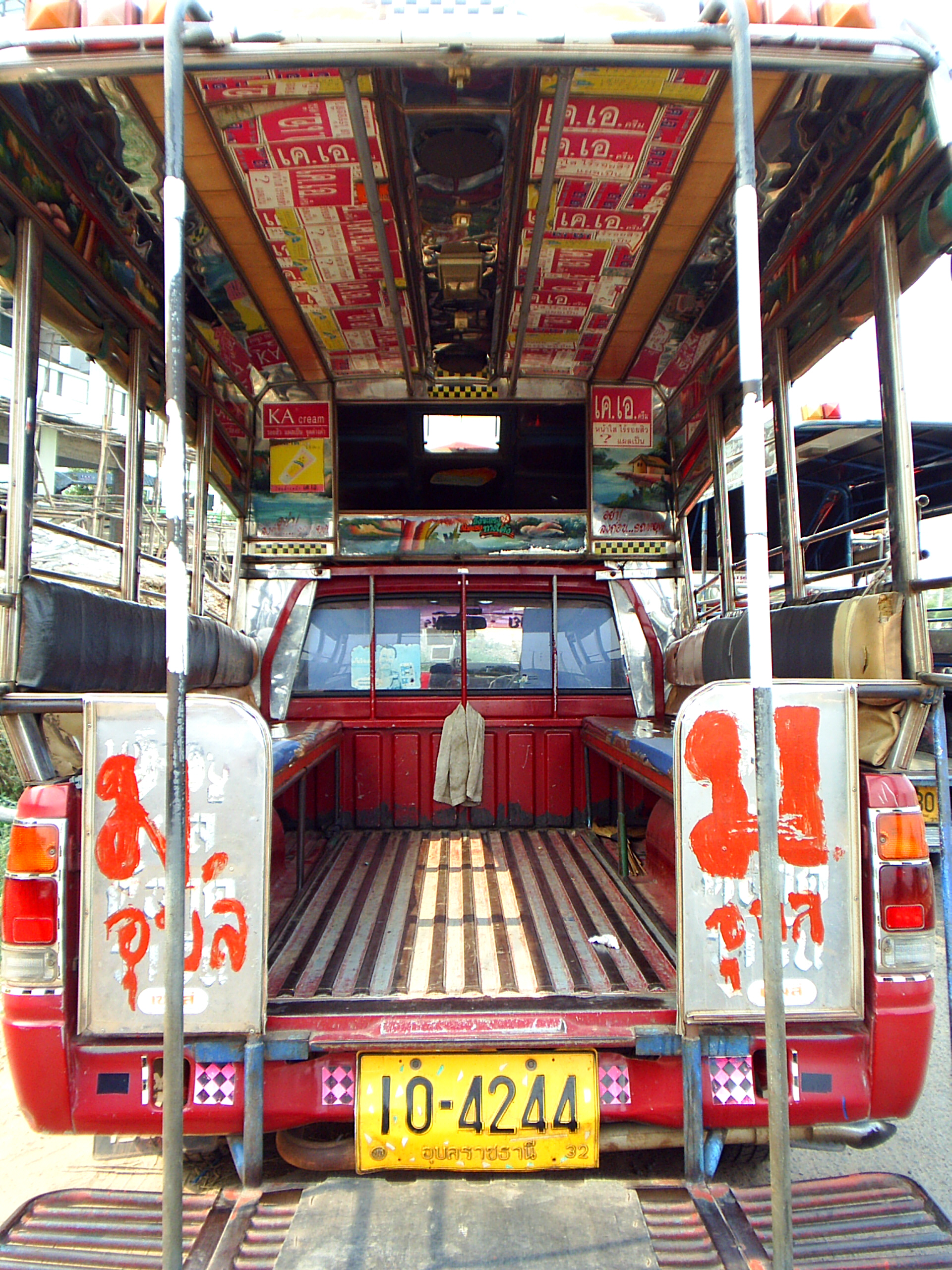 View of the inside of a songthaew.